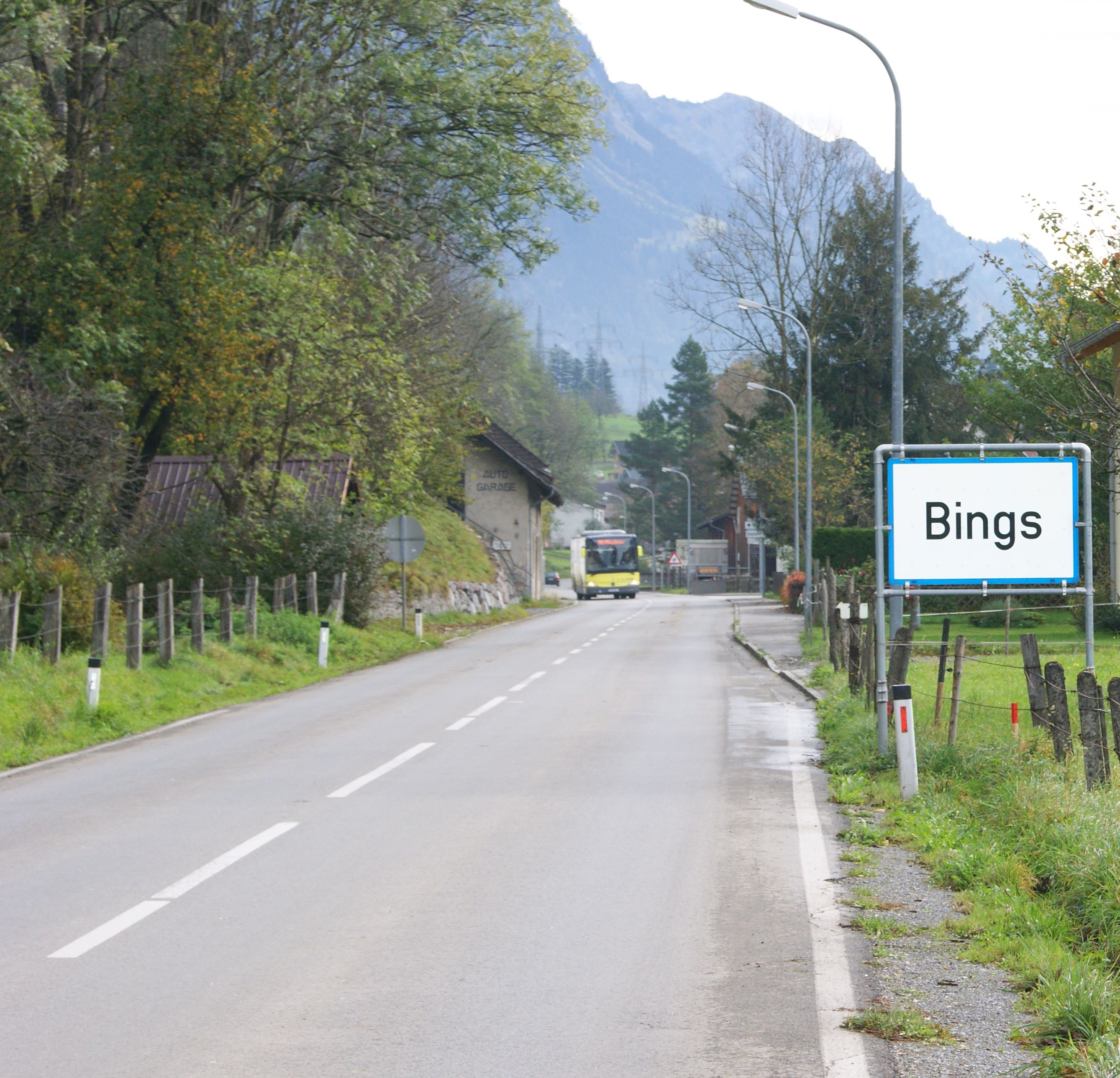 Western local entry of Bings, Muncipality Bludenz, Vorarlberg, Austria.